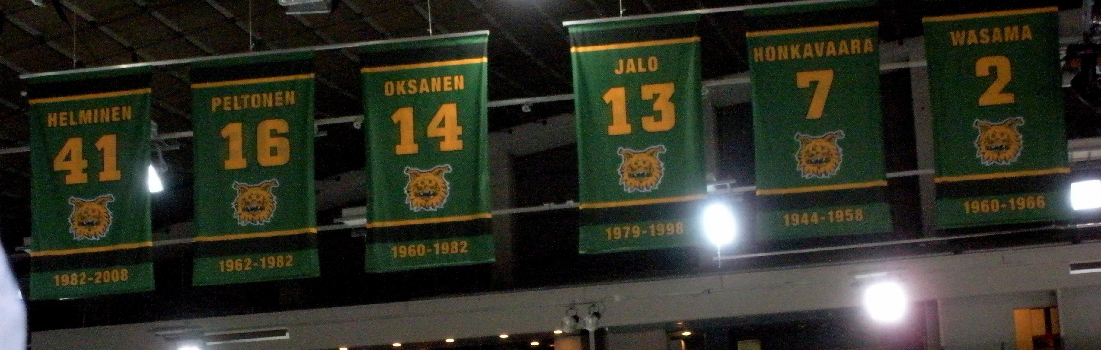 Retired numbers of Ilves